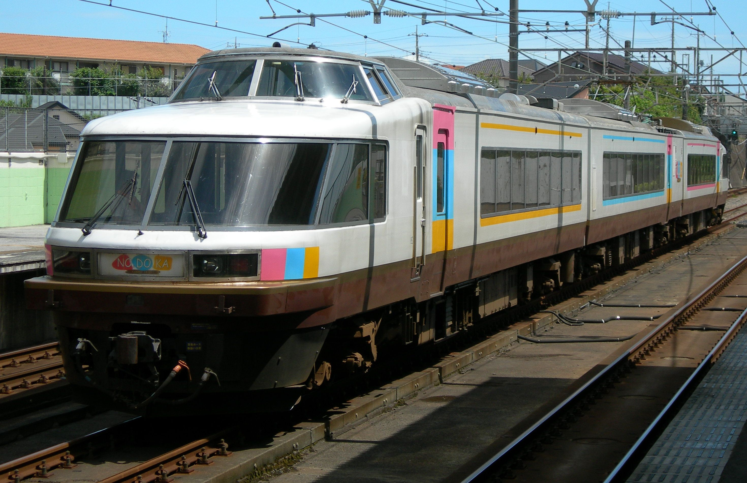 JR East 485 series "Nodoka" Joyful Train EMU at Ichikawa-Ono Station